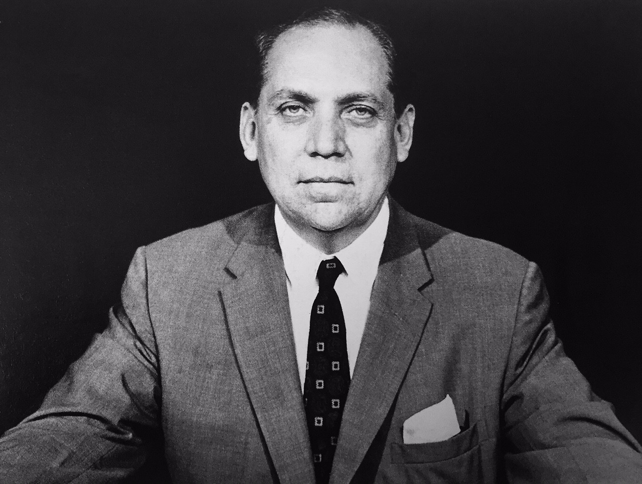 Venezuelan writer and politician Arturo Uslar Pietri (1906-2001).